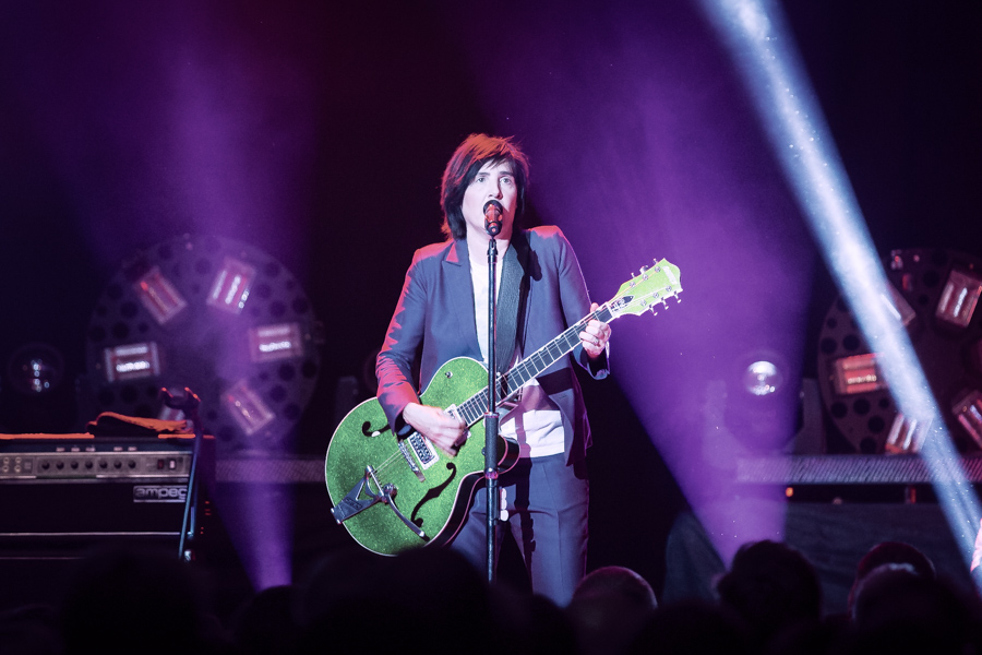 Sharleen Spiteri with Texas live on stage at Rockefeller Music Hall. The concert took place on 24. September 2018 in Oslo. Lineup: Sharleen Spiteri (vocal) Johnny McElhone (bass guitar) Ally McErlaine (guitar) Eddie Campbell (keyboard) Ross McFarlane (drums) Michael Bannister (keyboard) Tony McGovern (guitar and vocal)